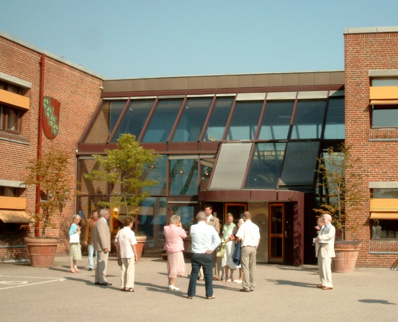 Wedding party at the entryway to Høje Taastrup Town Hall after a civil marriage. Høje Taastrup, Denmark. Photographer: Dan Simon